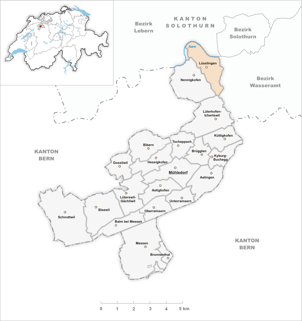 Municipality Lüsslingen